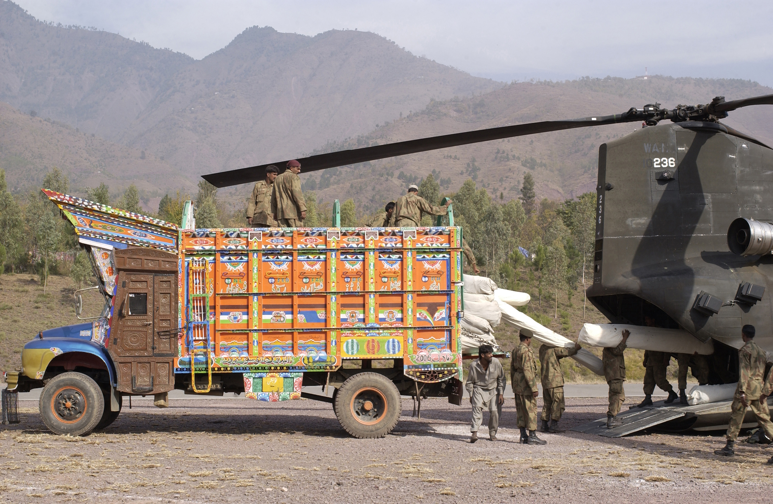 Pakistani soldiers load humanitarian relief supplies onto a U.S. CH-47D Chinook helicopter at Muzaffarabad, Pakistan, on Nov. 19, 2005.